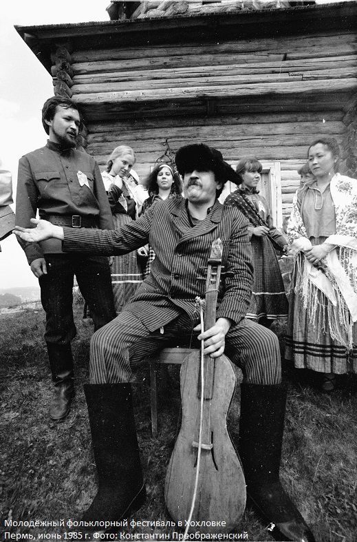 The youth folklore festival in Khokhlovka, Perm, June, 1985